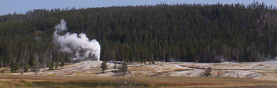 Upper Geyser Basin at Yellowstone NP, September 2004